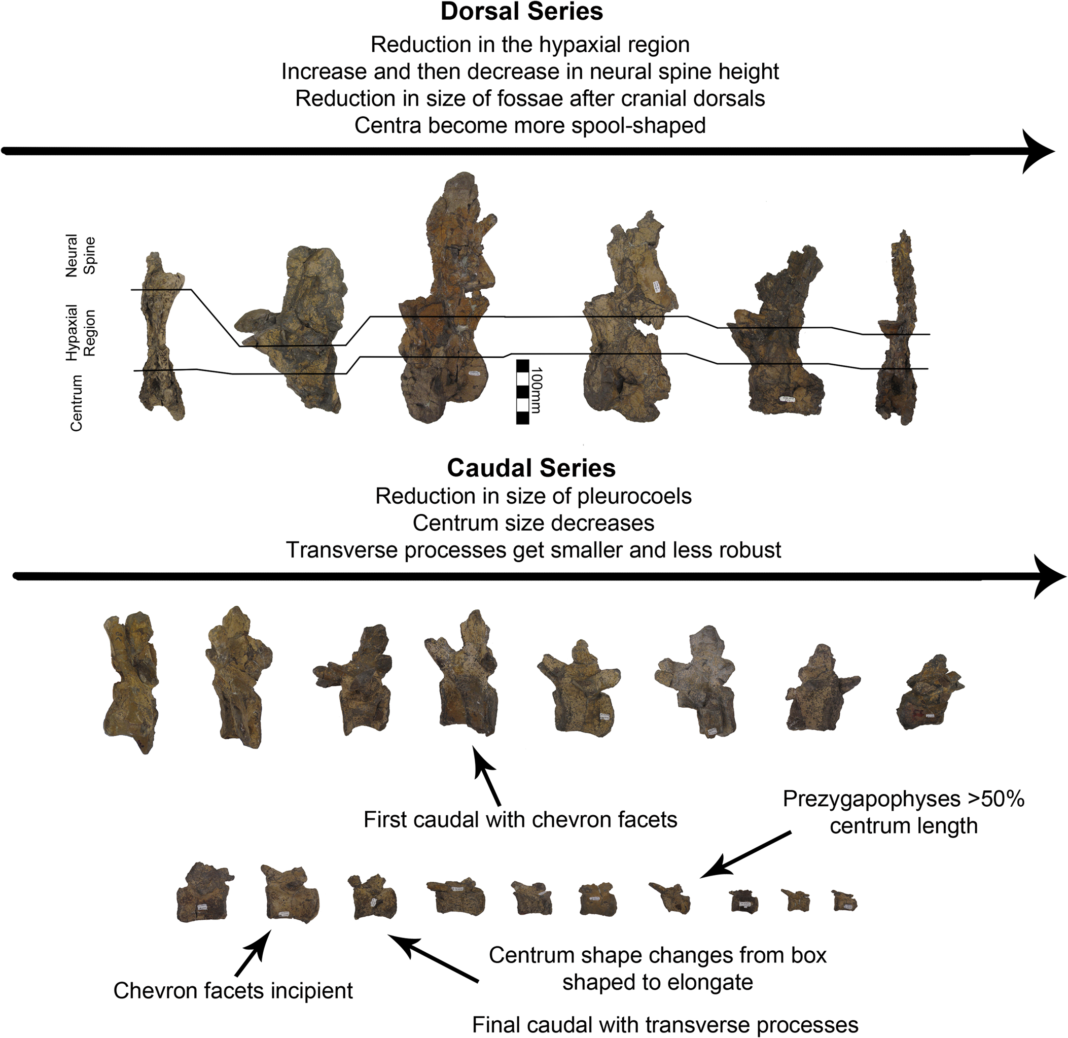 Nothronychus (UMNH VP16420) dorsal and caudal series. Six representative dorsal vertebrae and eighteen representative caudal vertebrae demonstrating large scale changes along the vertebral column. Scale = 100 mm.